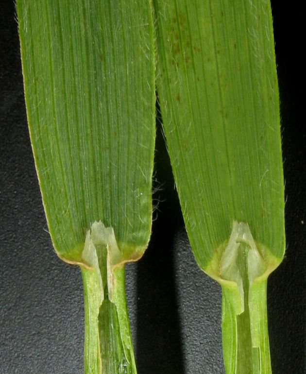 Bromus arvensis